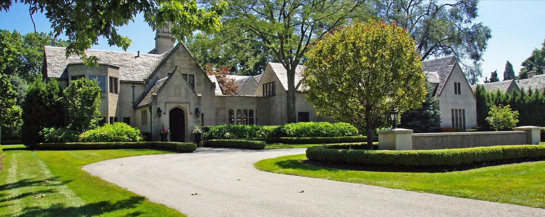 Windmill Pointe in Grosse Pointe, by S. Alfred Hopkins and Hugh T. Keyes